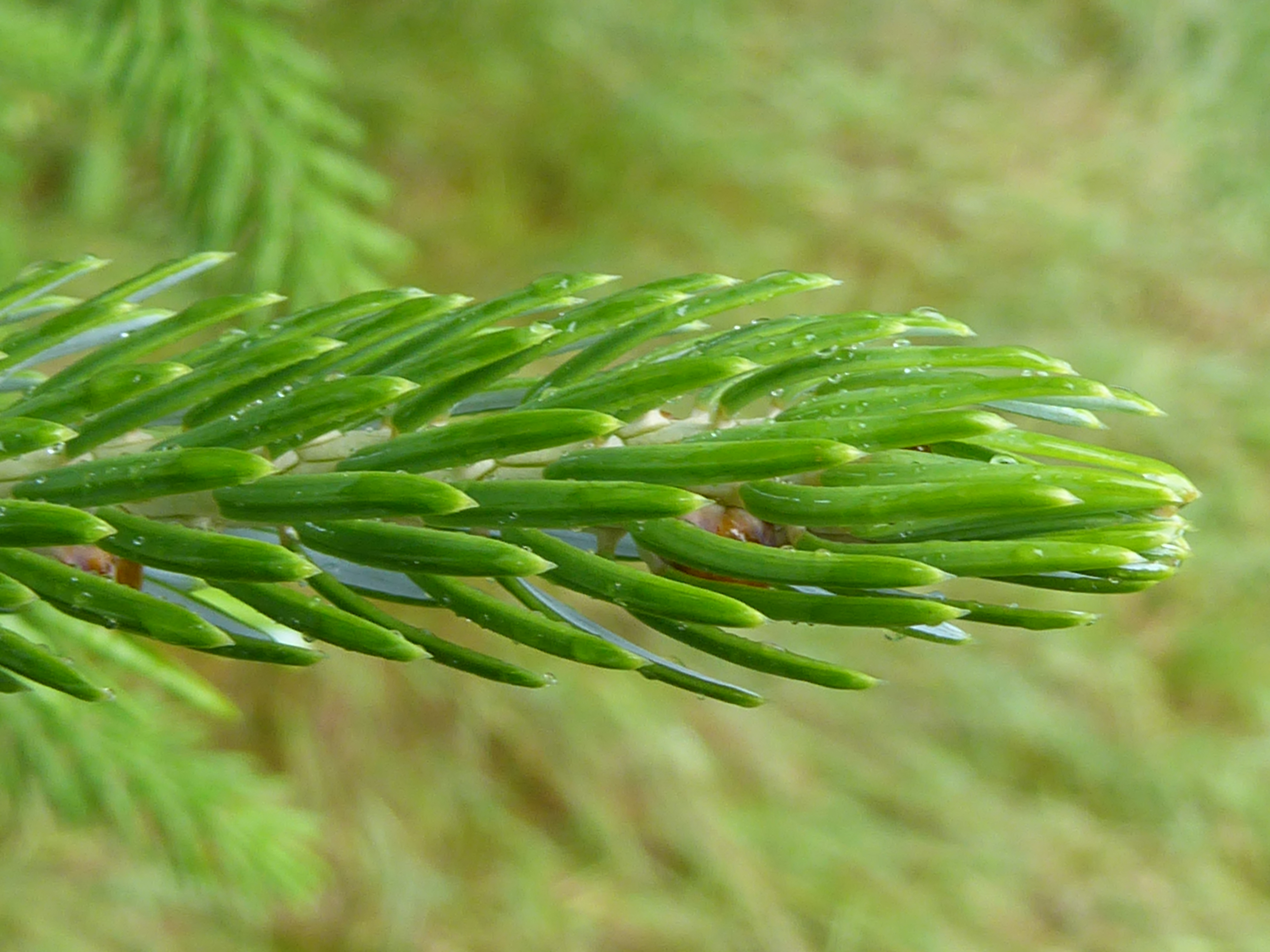 Picea brachytyla in the park of Scone palace